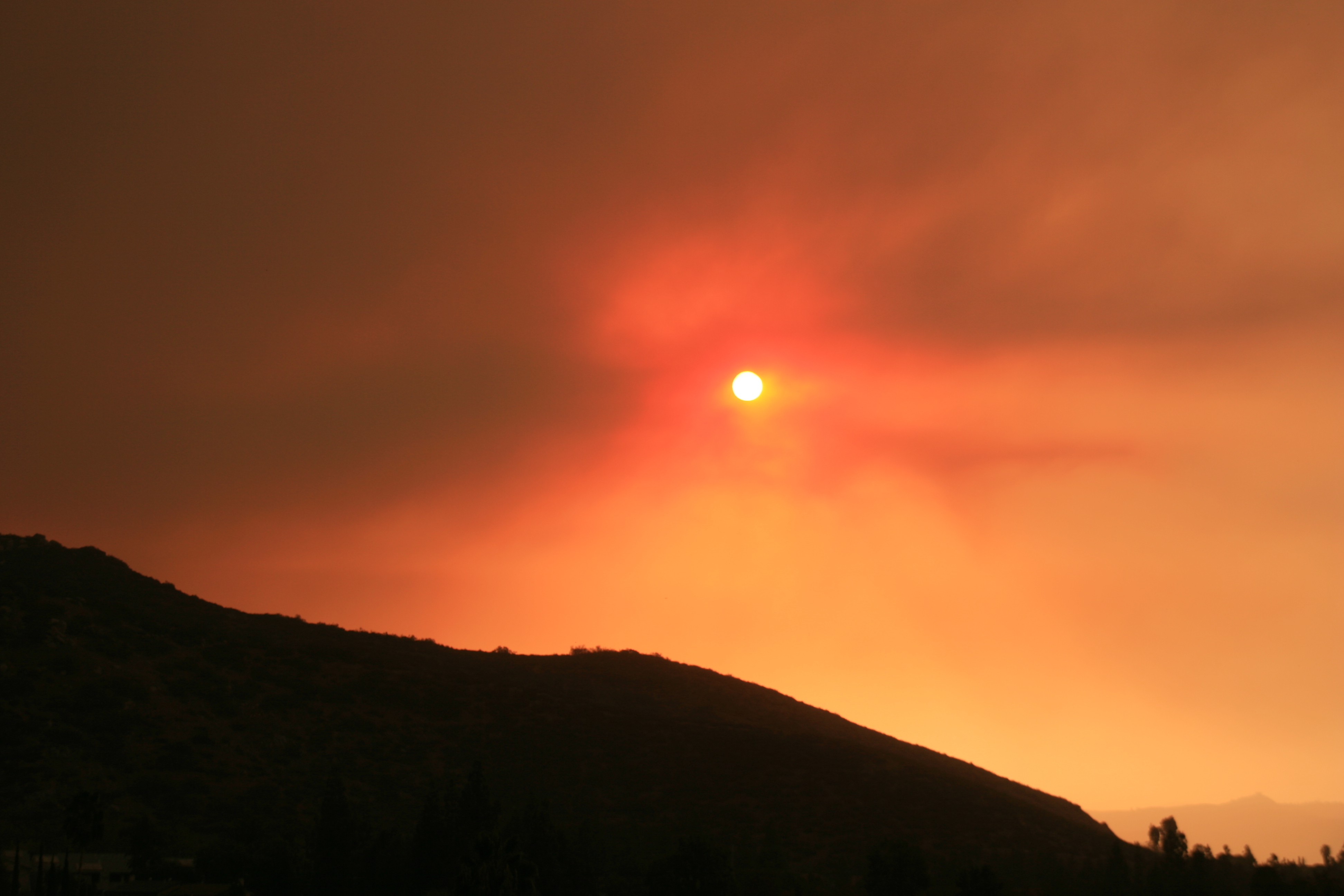 Looking out my back yard. The sun obscured by smoke from the massive wildfires throughout San Diego